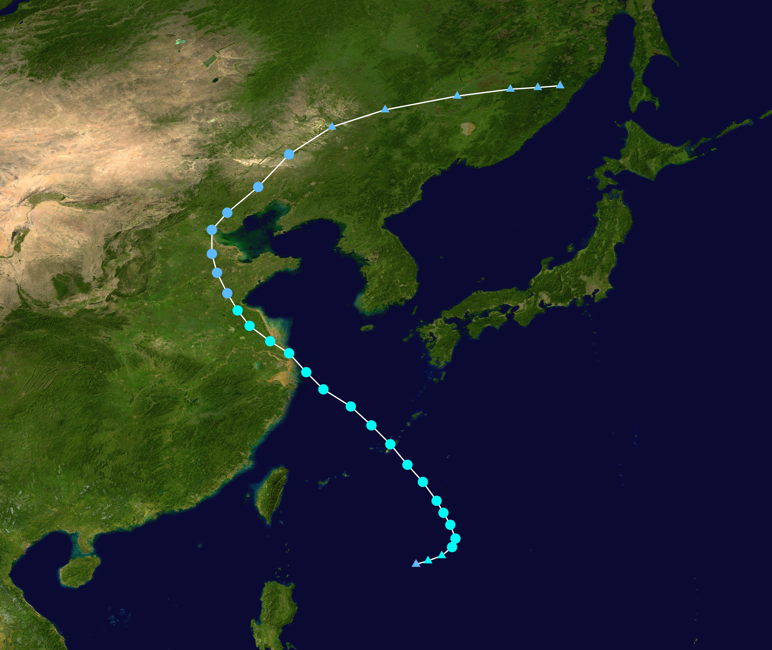 Track map of Severe Tropical Storm Ampil of the 2018 Pacific typhoon season. The points show the location of the storm at 6-hour intervals. The colour represents the storm's maximum sustained wind speeds as classified in the Saffir–Simpson scale (see below), and the shape of the data points represent the nature of the storm, according to the legend below. Saffir–Simpson scale Tropical depression≤38 mph≤62 km/h Category 3111–129 mph178–208 km/h Tropical storm39–73 mph63–118 km/h Category 4130–156 mph209–251 km/h Category 174–95 mph119–153 km/h Category 5≥157 mph≥252 km/h Category 296–110 mph154–177 km/h Unknown Storm type Tropical cyclone Subtropical cyclone Extratropical cyclone / Remnant low / Tropical disturbance / Monsoon depression